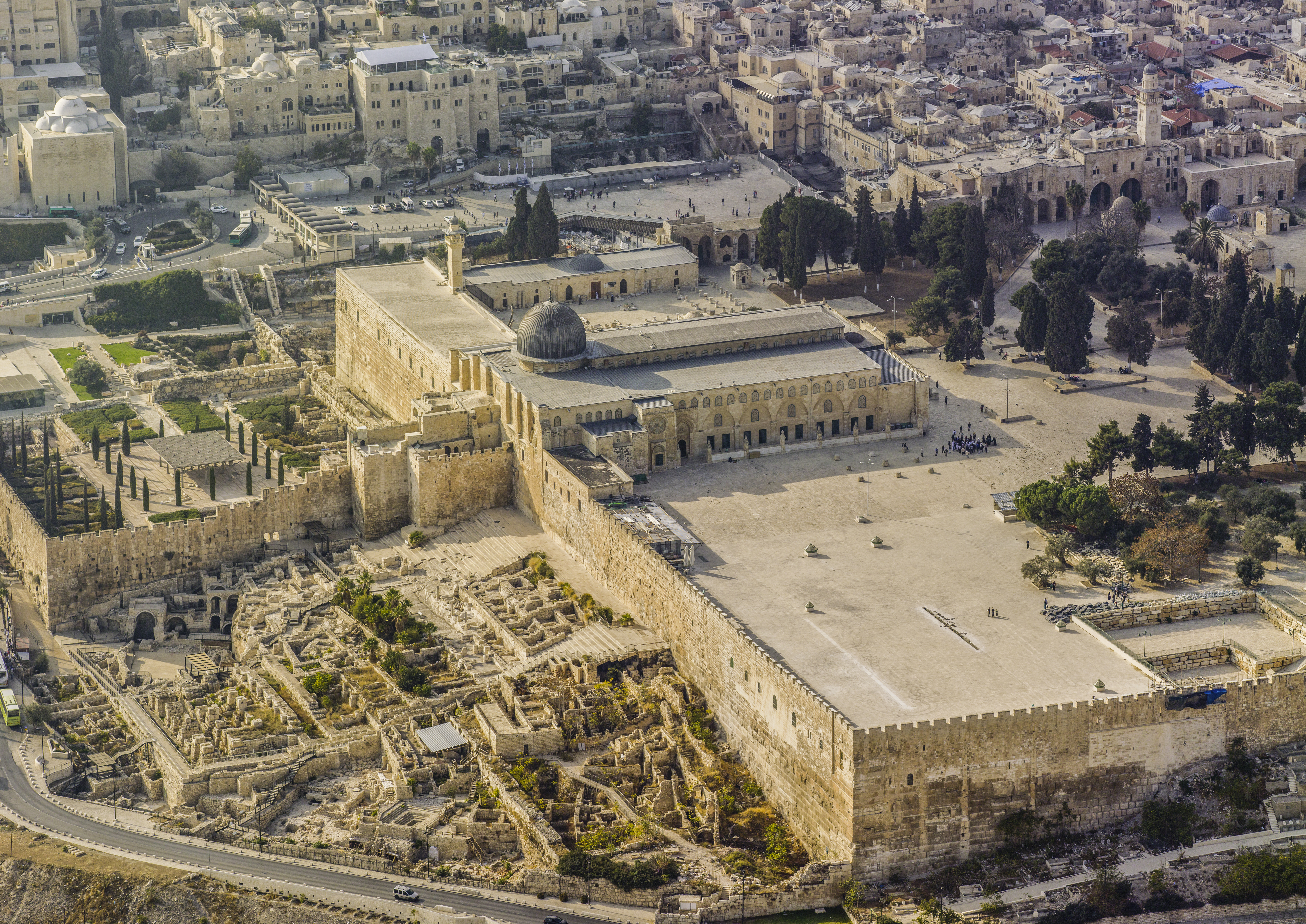 Aerial (ESE) exposure of Al-Aqsa Mosque (Arabic:المسجد الاقصى) on the Temple Mount, (Hebrew: הַר הַבַּיִת, Arabic: الحرم القدسي الشريف) in the Old City of Jerusalem ((Hebrew: העיר העתיקה, Arabic: البلدة القديمة). Al-Aqsa is considered to be the third holiest site in Islam after Mecca and Medina.